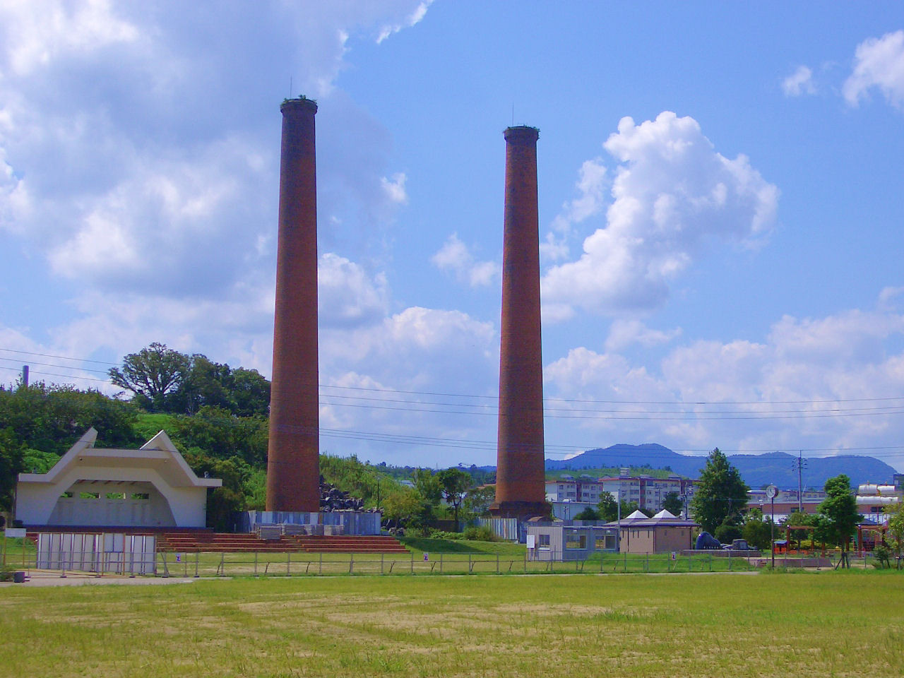 Chimneys of former Ita Coal Pit (Japan's registered tangible cultural property), Mitsui Tagawa Mine (Coal Mine Memorial Park), Tagawa city, Fukuoka, Japan.